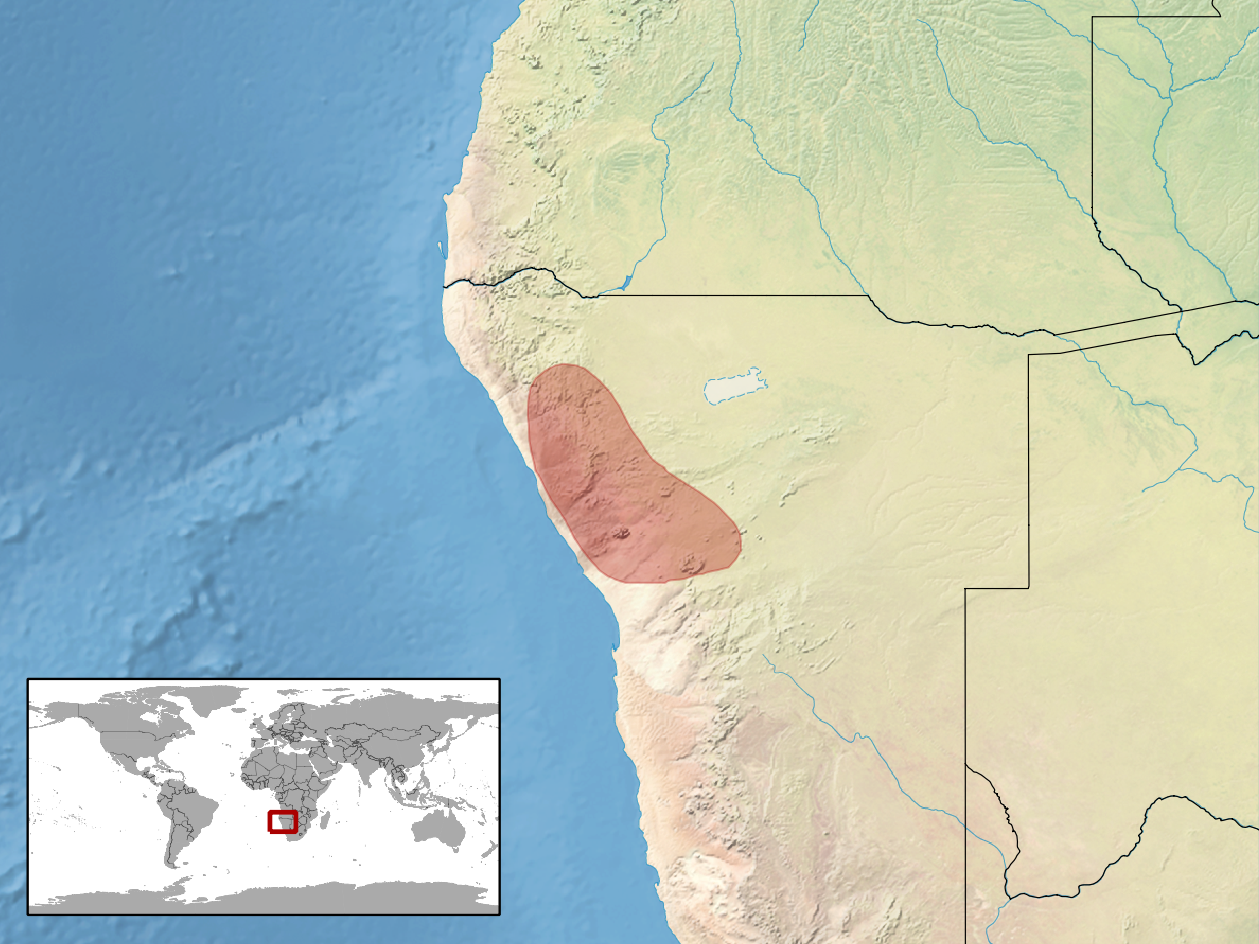 geographic distribution of Pachydactylus fasciatus (Native: Namibia)